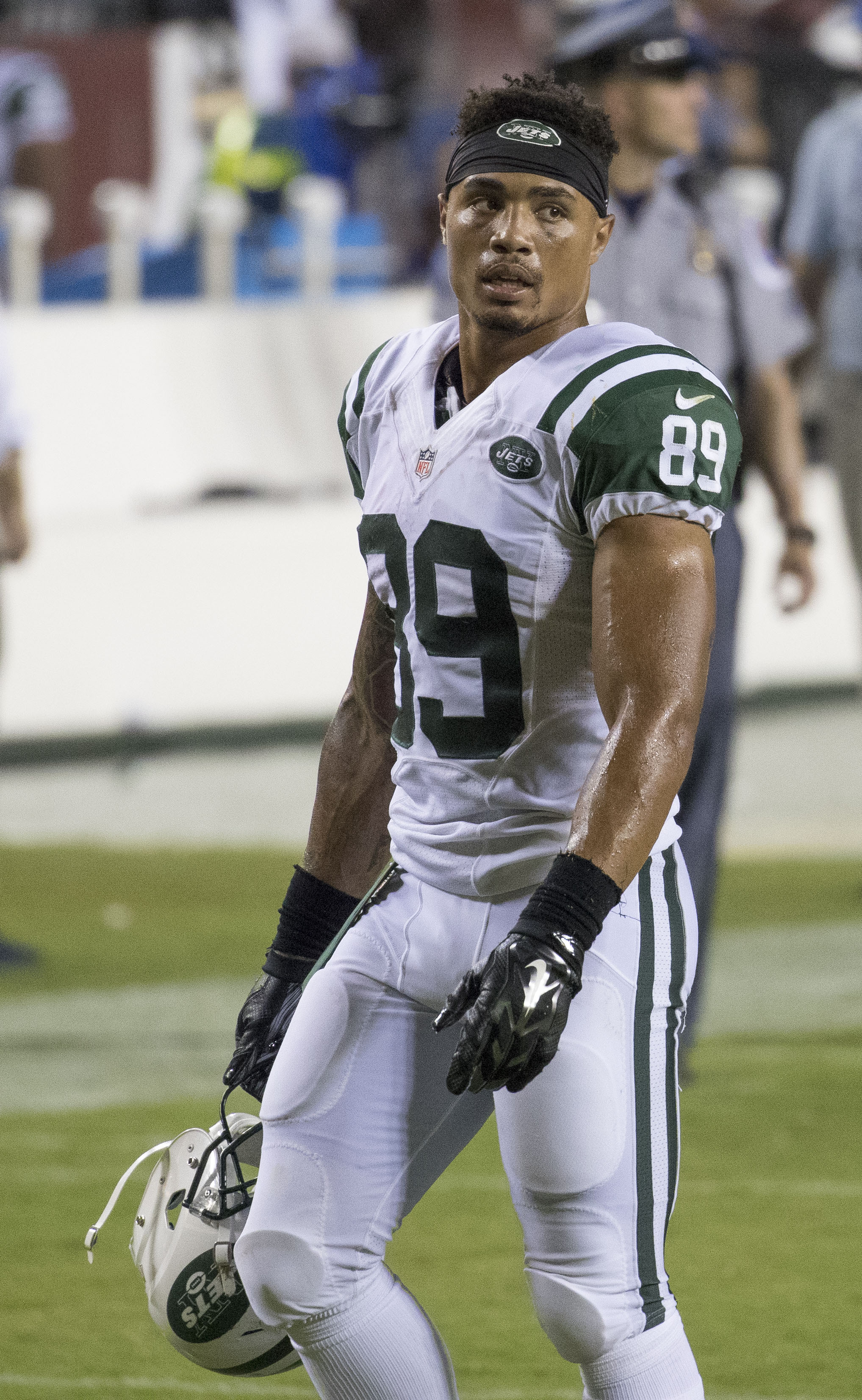 Jets at Redskins 8/19/16